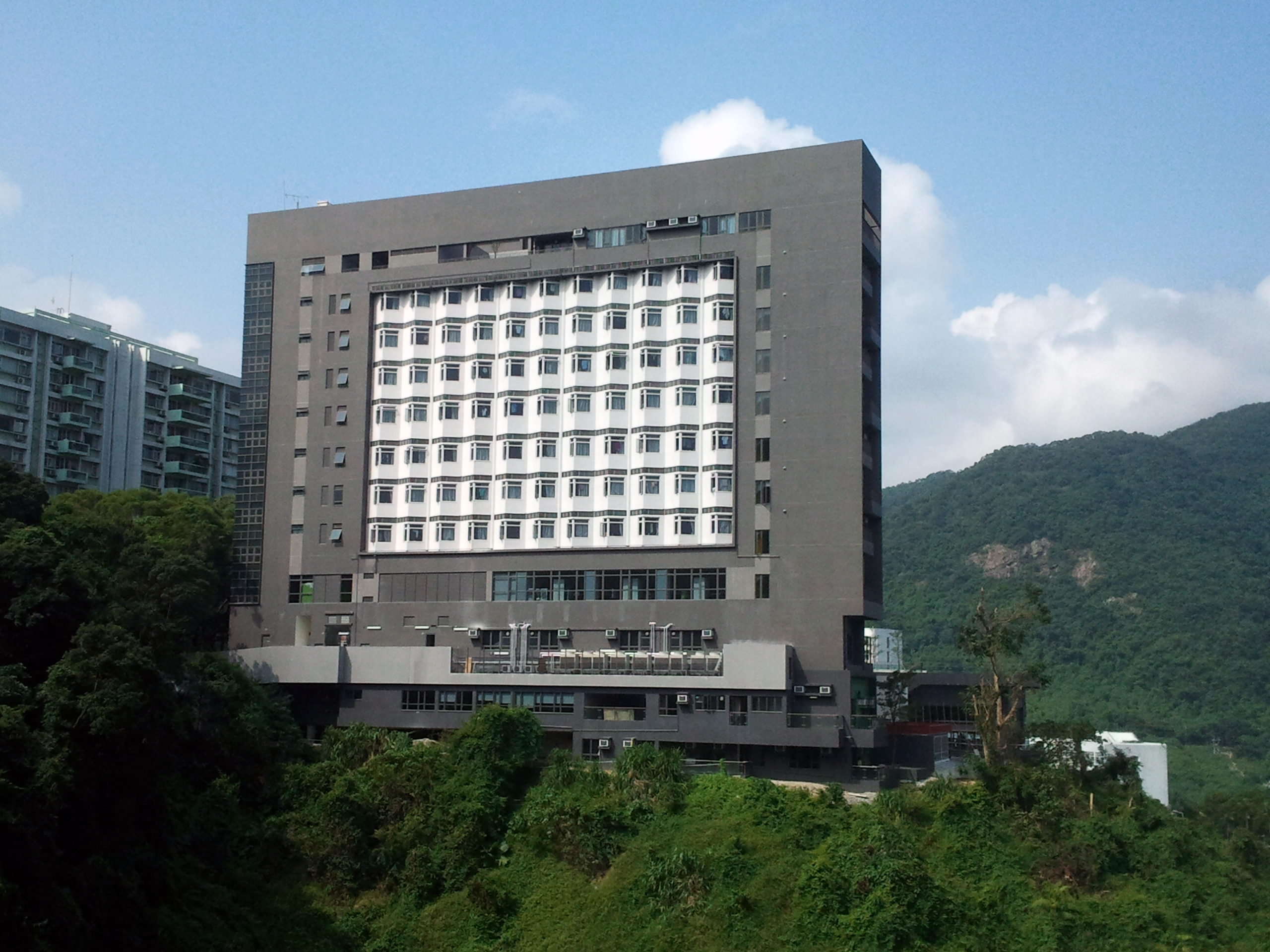 Wu Yee Sun College overview